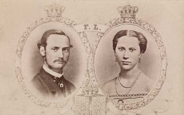 Frederick VIII and his wife, Lovisa(Louise)